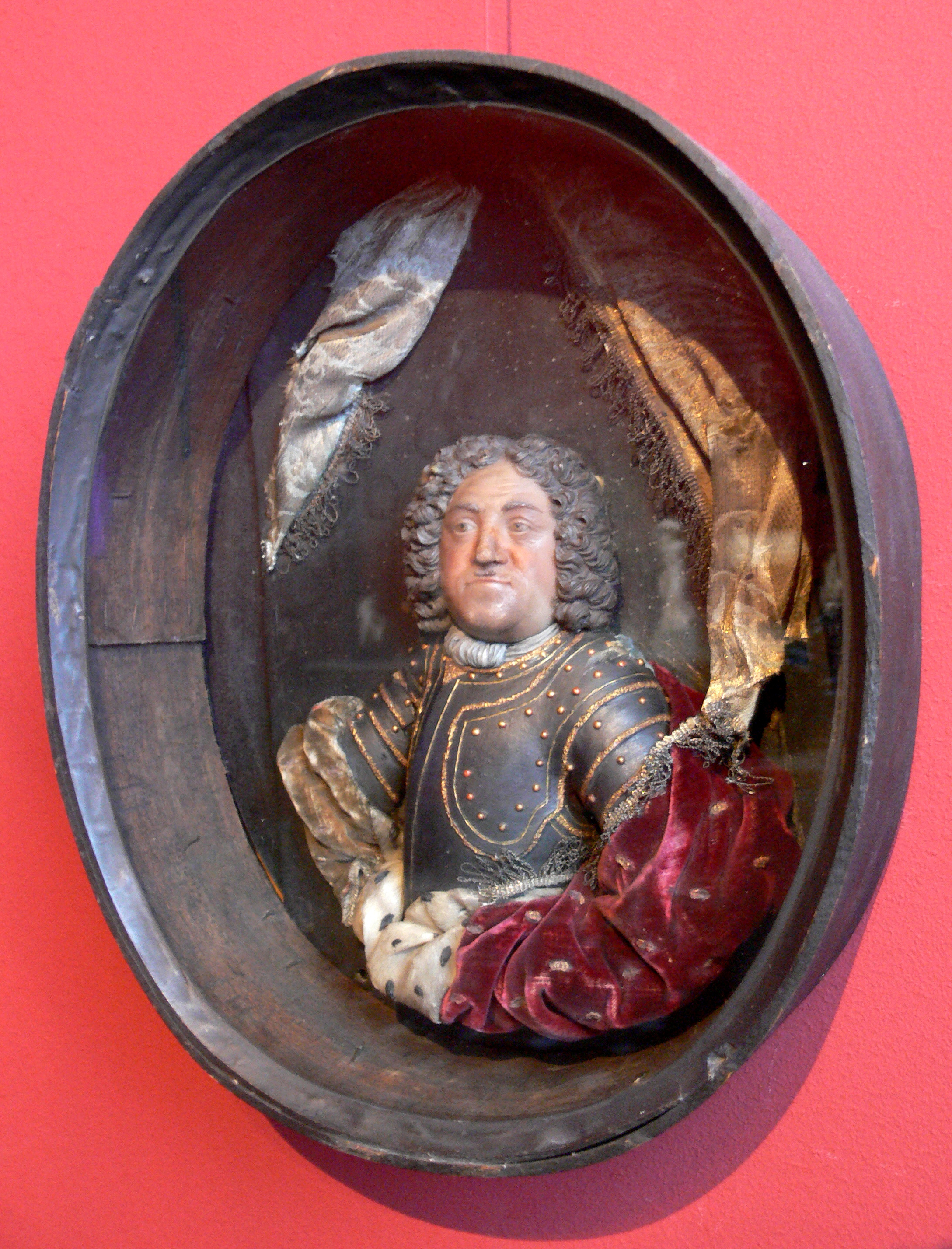 Johann Wilhelm von Kolm: Wax portrait of Frederick III., elector of Brandenburg (later as Frederick I. King in Prussia), Berlin, c. 1700. Skulpturensammlung (from the Royal „Kunstkammer“ collection)